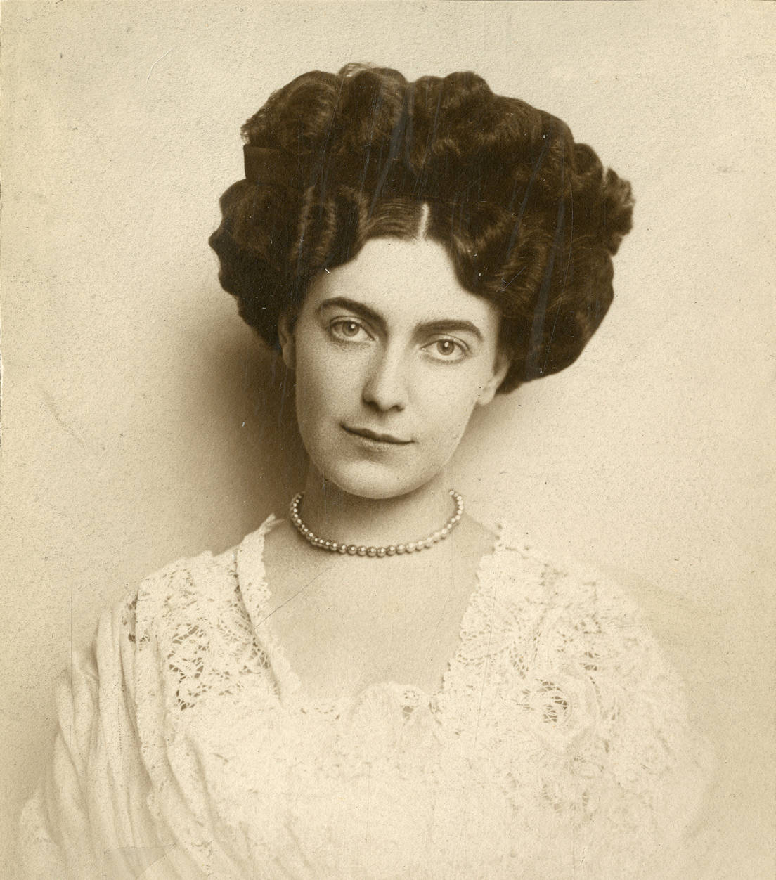 Brenda Fowler, stage actress Subjects: actresses